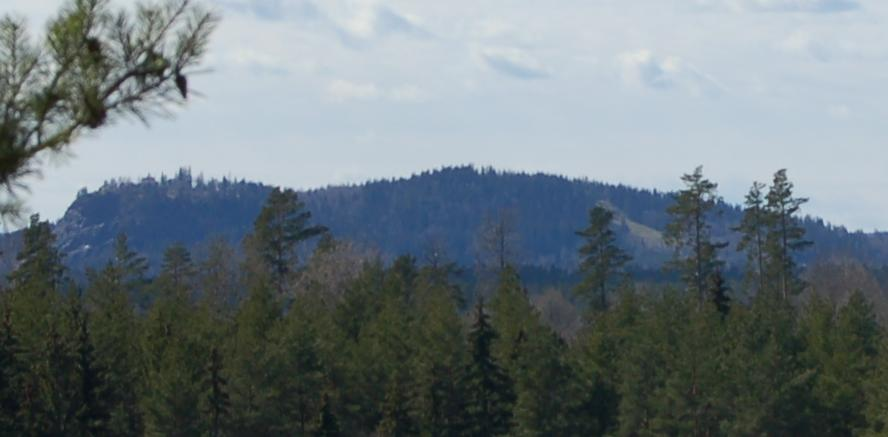 Taberg, mountain in Jönköping